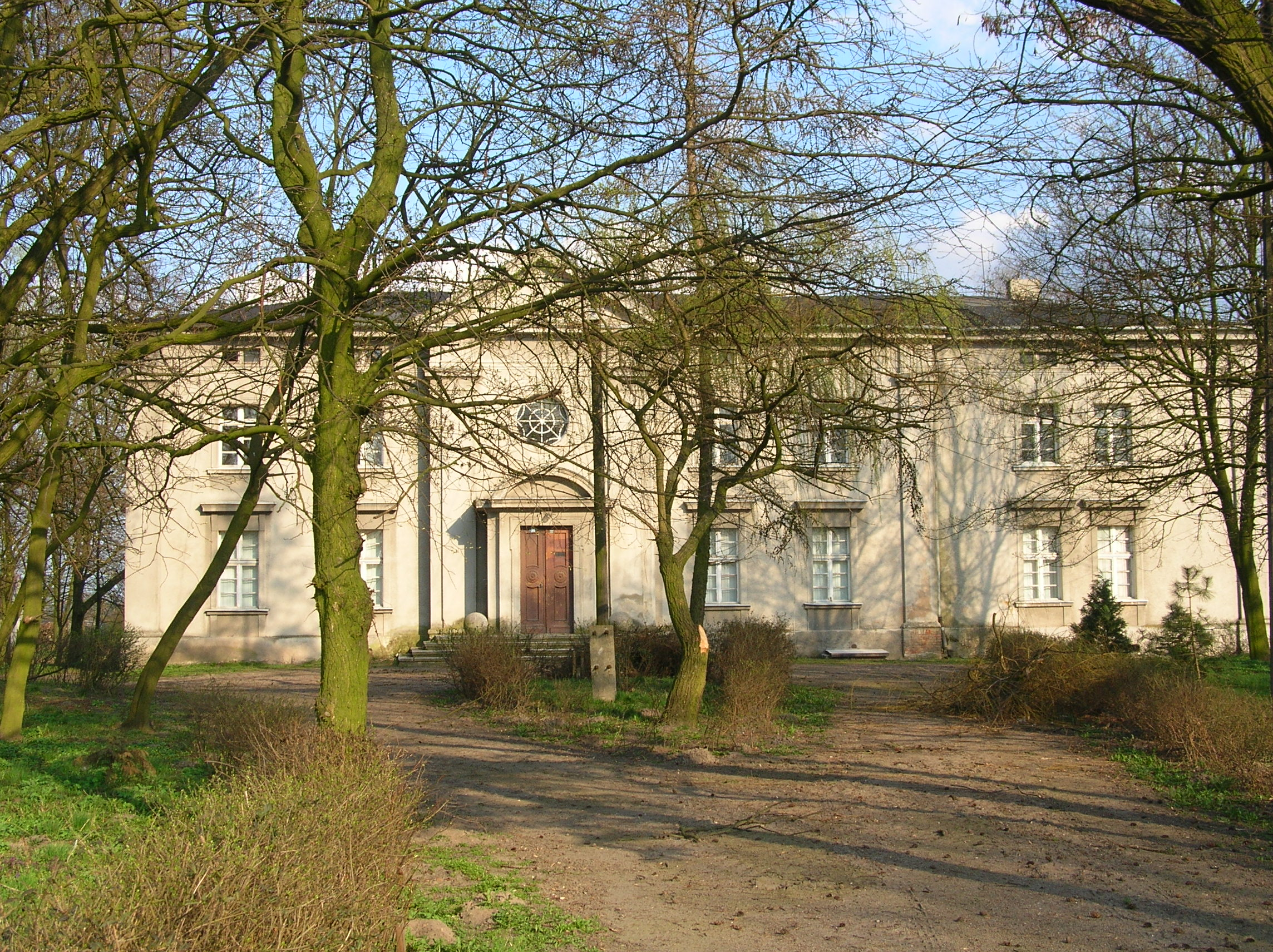 Manor house in Wójcin